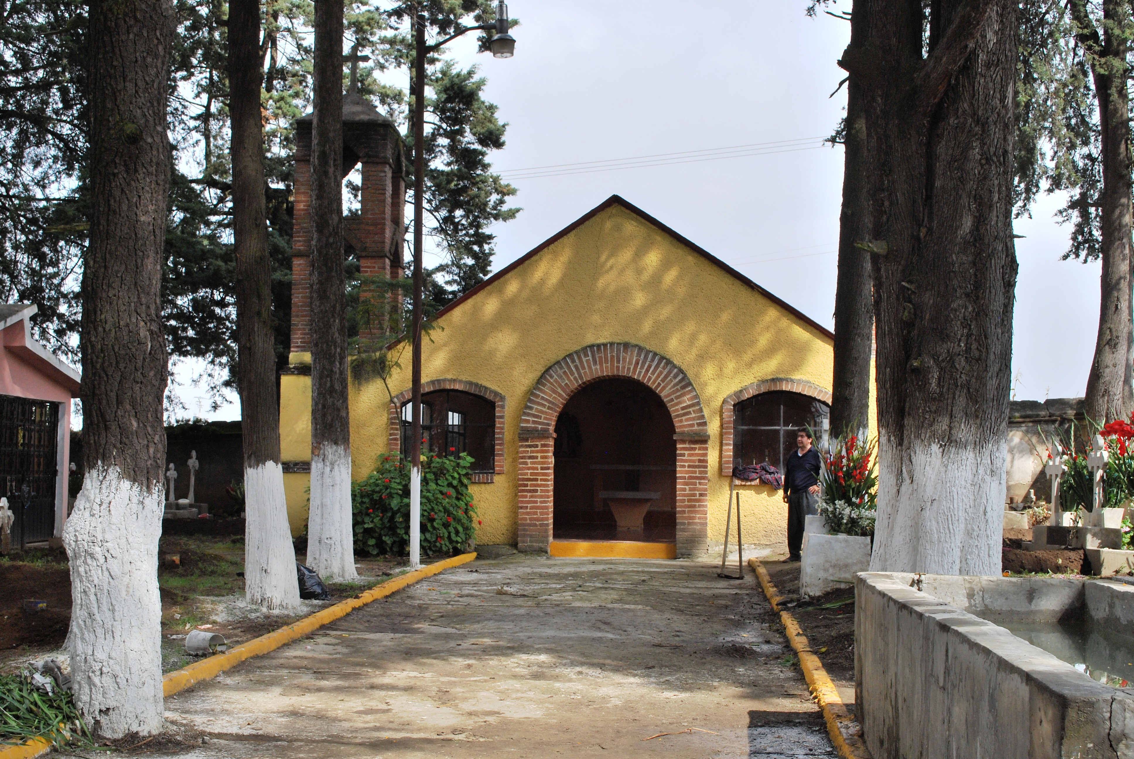 Chapel of the Almoloya del Río cemetery